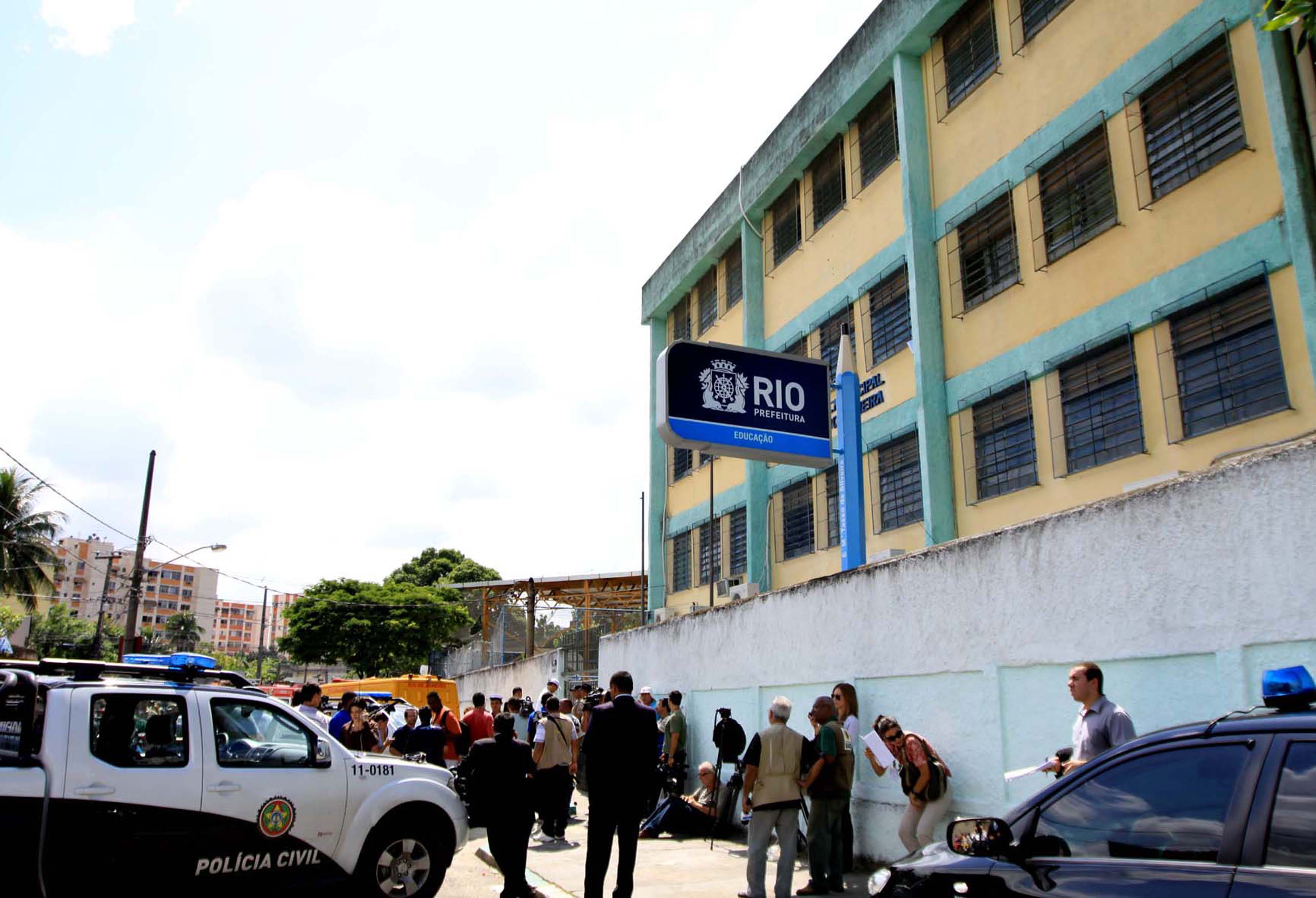 Rio de Janeiro - Municipal School Tasso da Silveira, in Realengo, after the shooting that killed many students